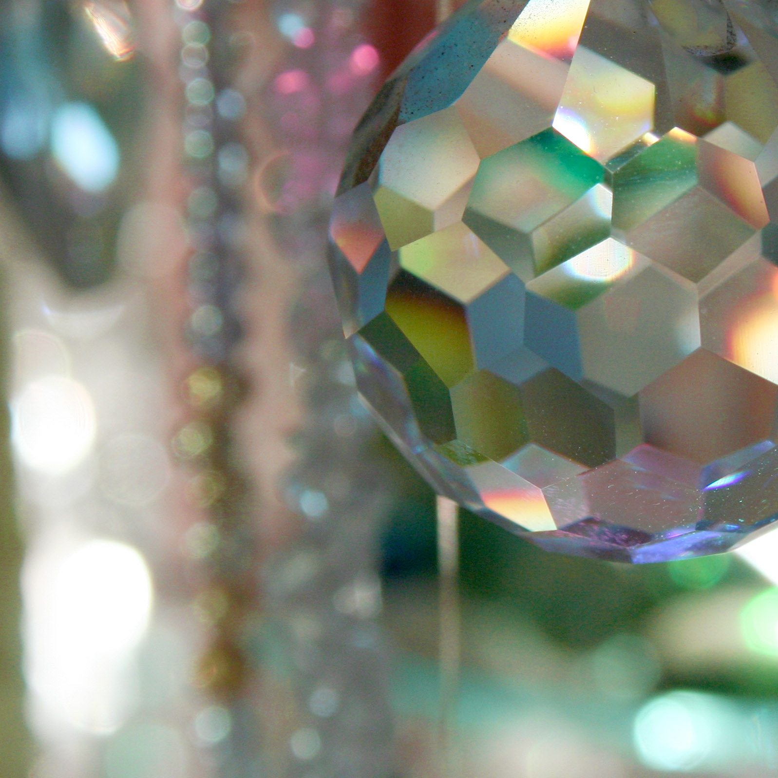 Feng Shui crystal